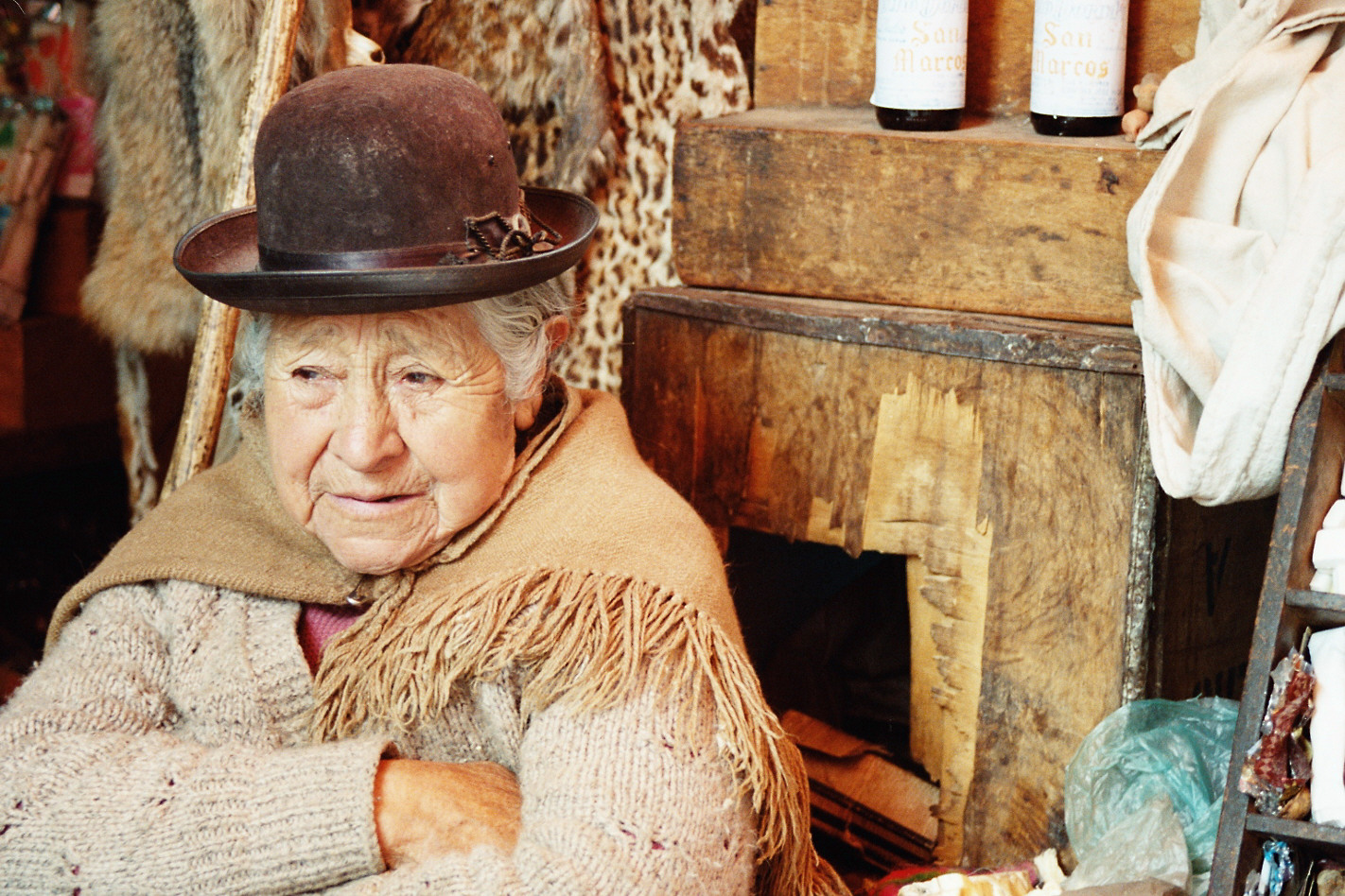 A seller of the offerings in La Paz, Bolivia.